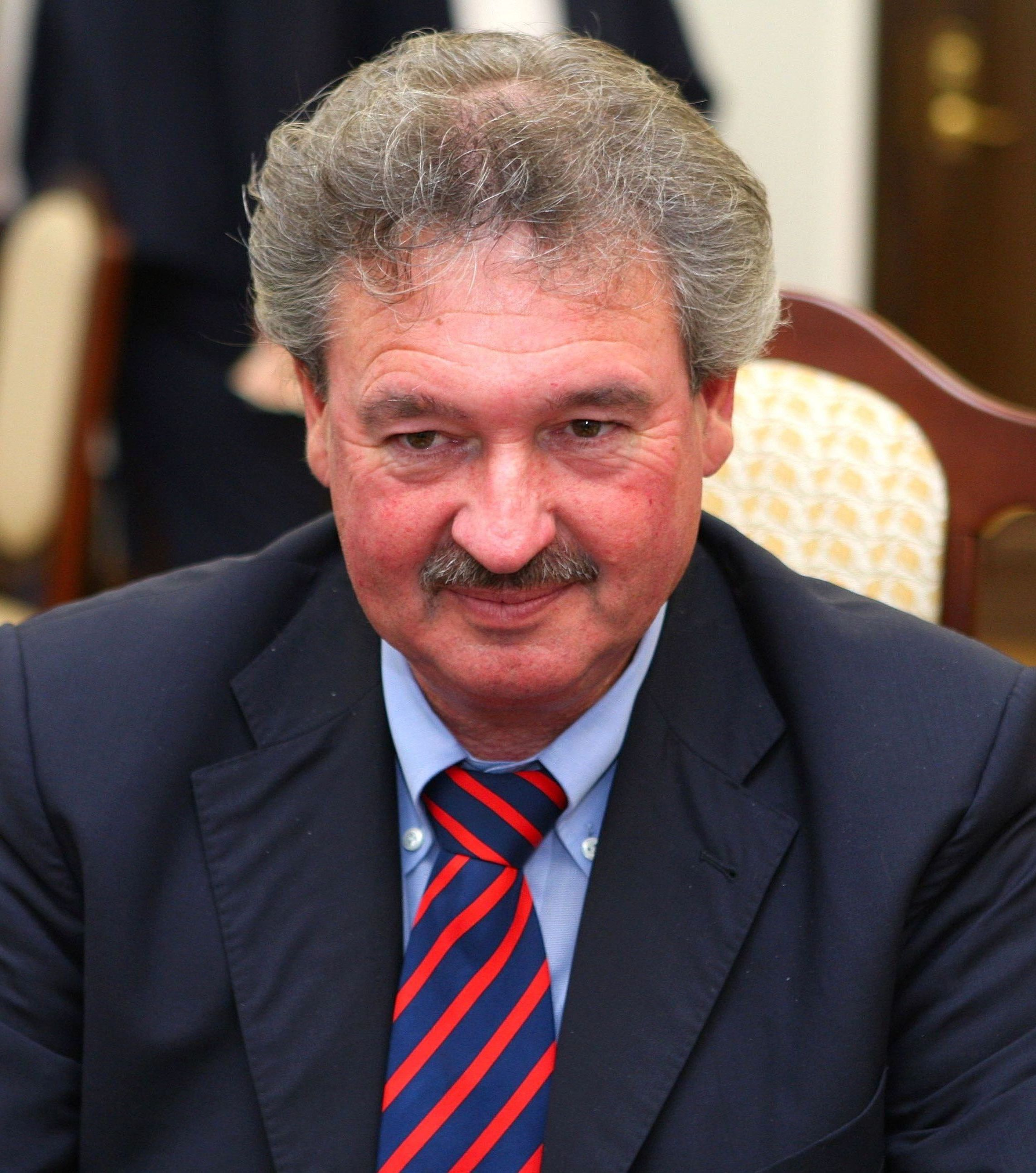 Deputy Prime Minister of Luxembourg Jean Asselborn in the Polish Senate